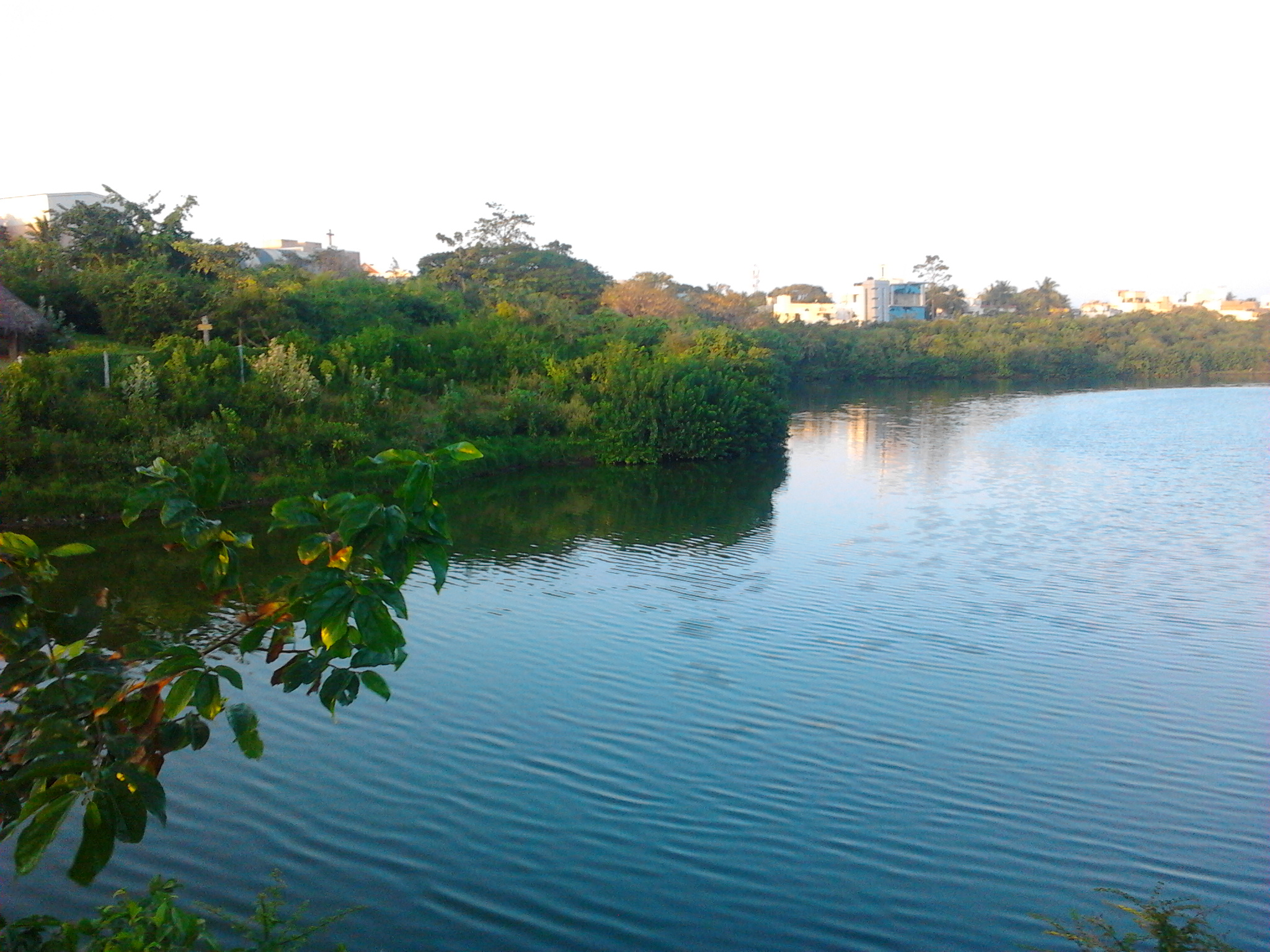 Photoed using Samsung Wave 525.